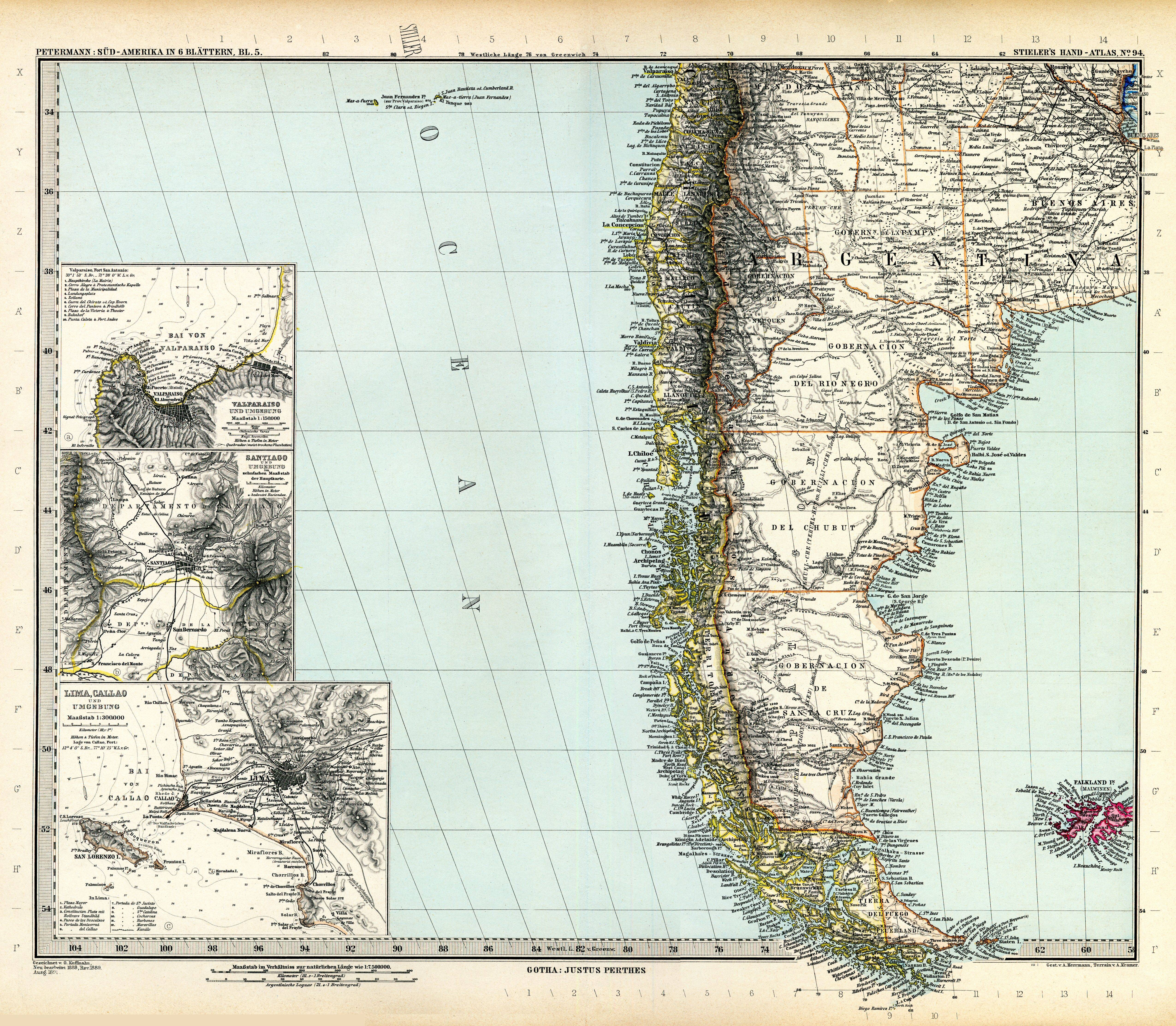 South America in 6 sheets, sheet 5